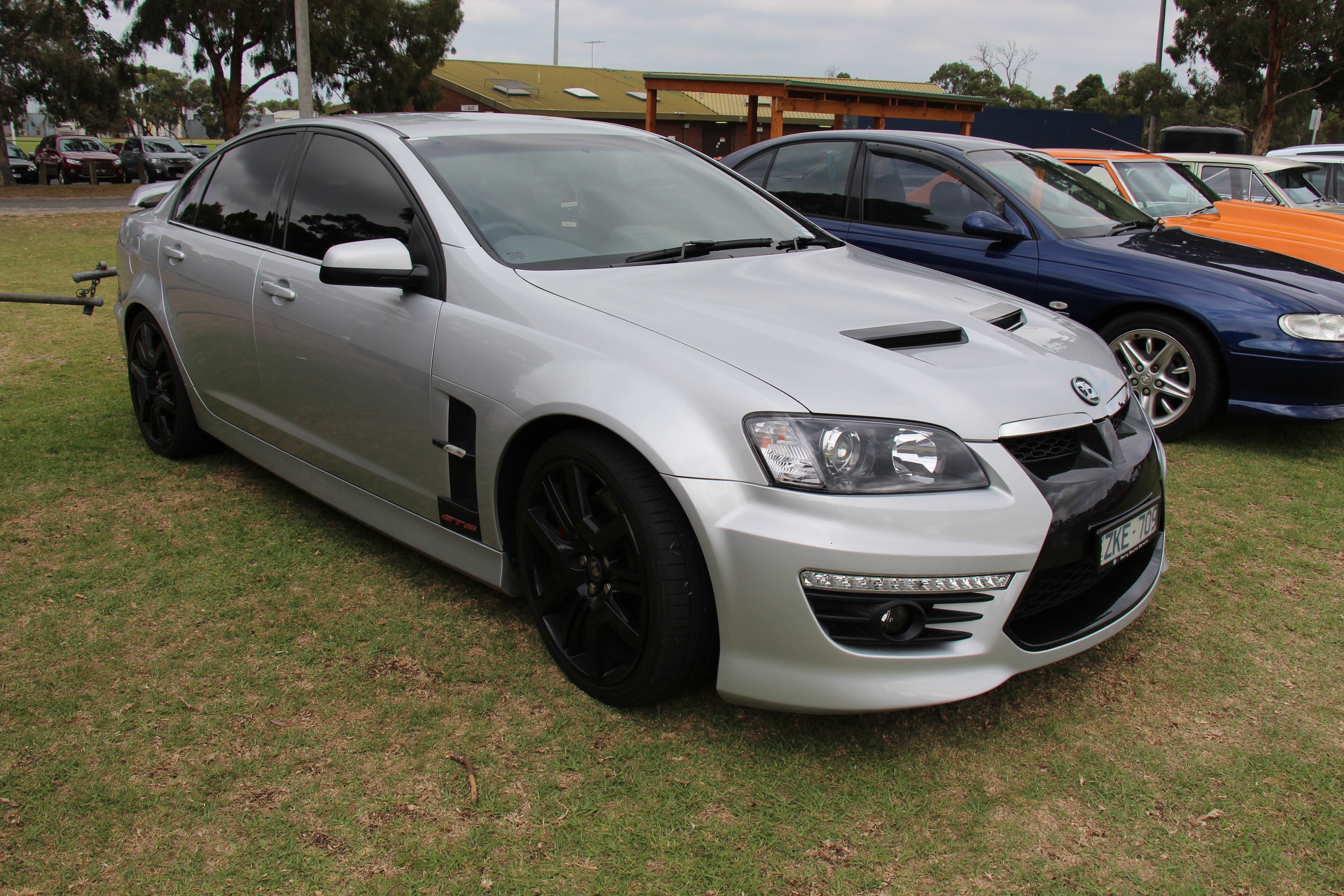 2012 HSV GTS (E Series 3 MY12) sedan Vehicle registration enquiry resultsJurisdictionVictoriaRegistrationZKE709Chassis code6G1EX5EW1CL647291Engine code2AA120271073Compliance date2012-04Year of manufacture2012